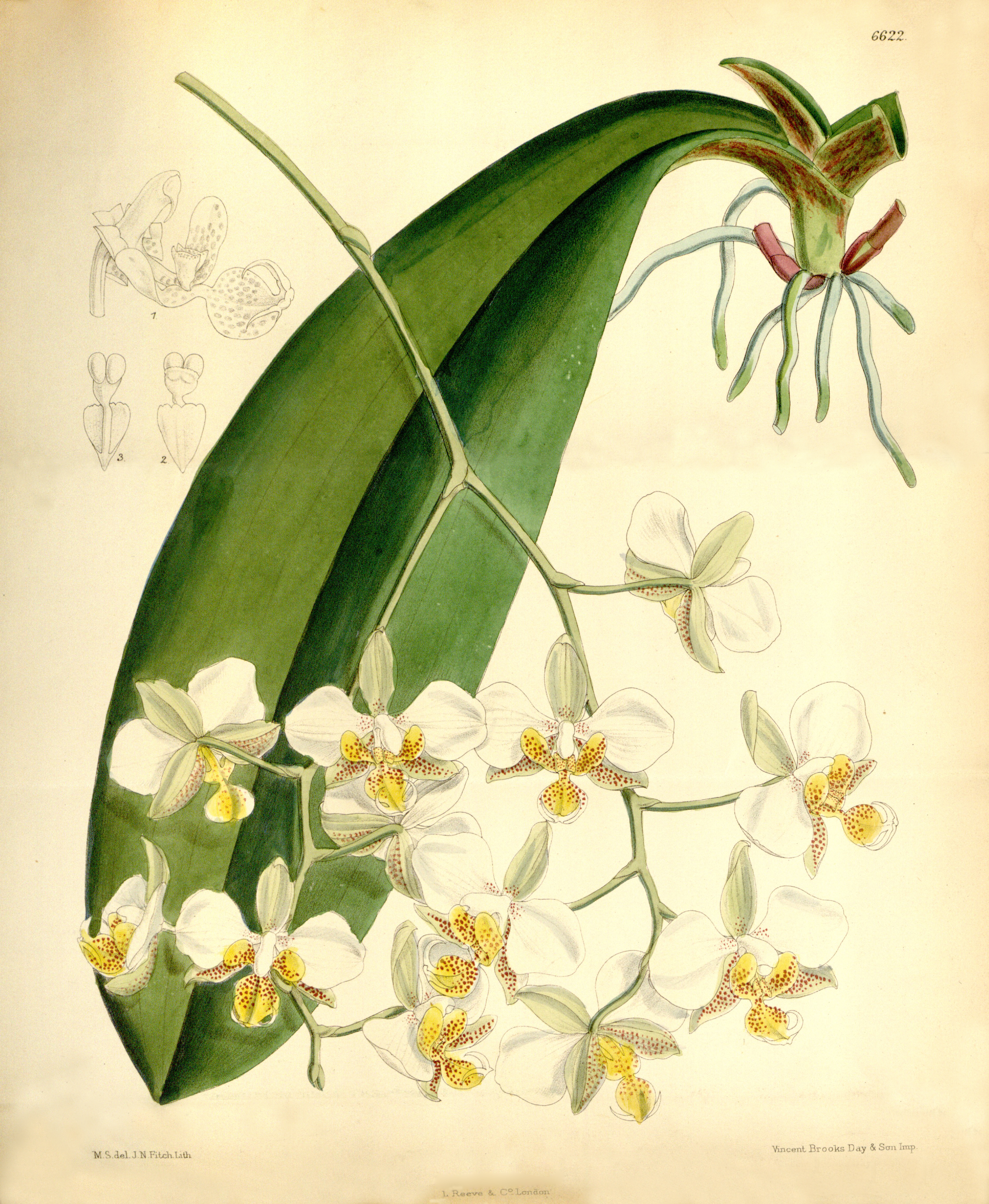 Illustration of Phalaenopsis stuartiana